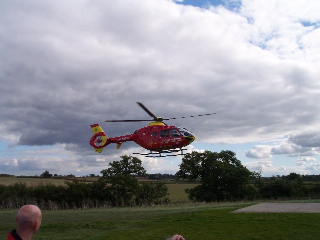 Air Ambulance taking off from Strensham Services M5